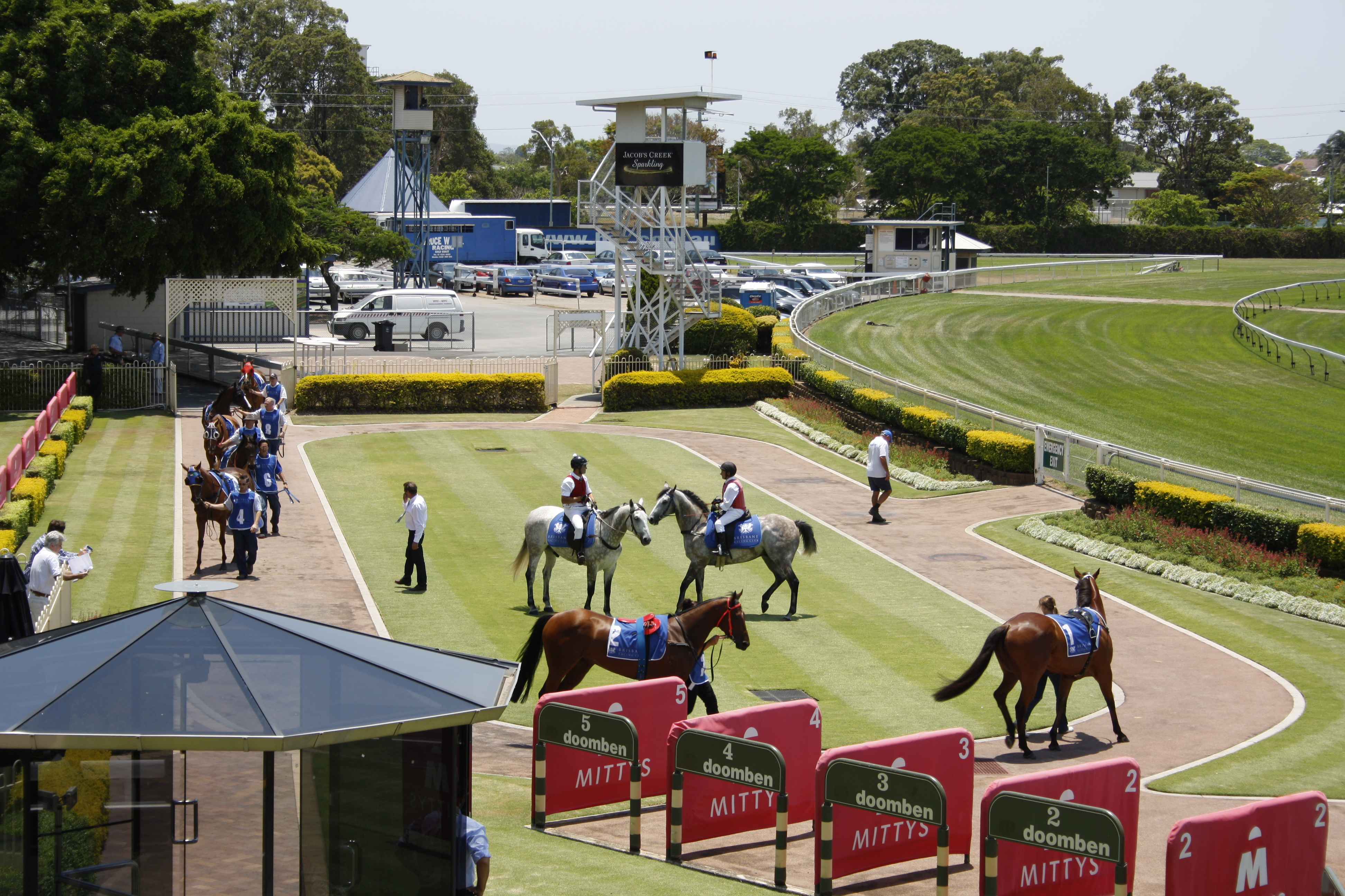 Mounting yard in use pre-race at Doomben, Brisbane, Australia.